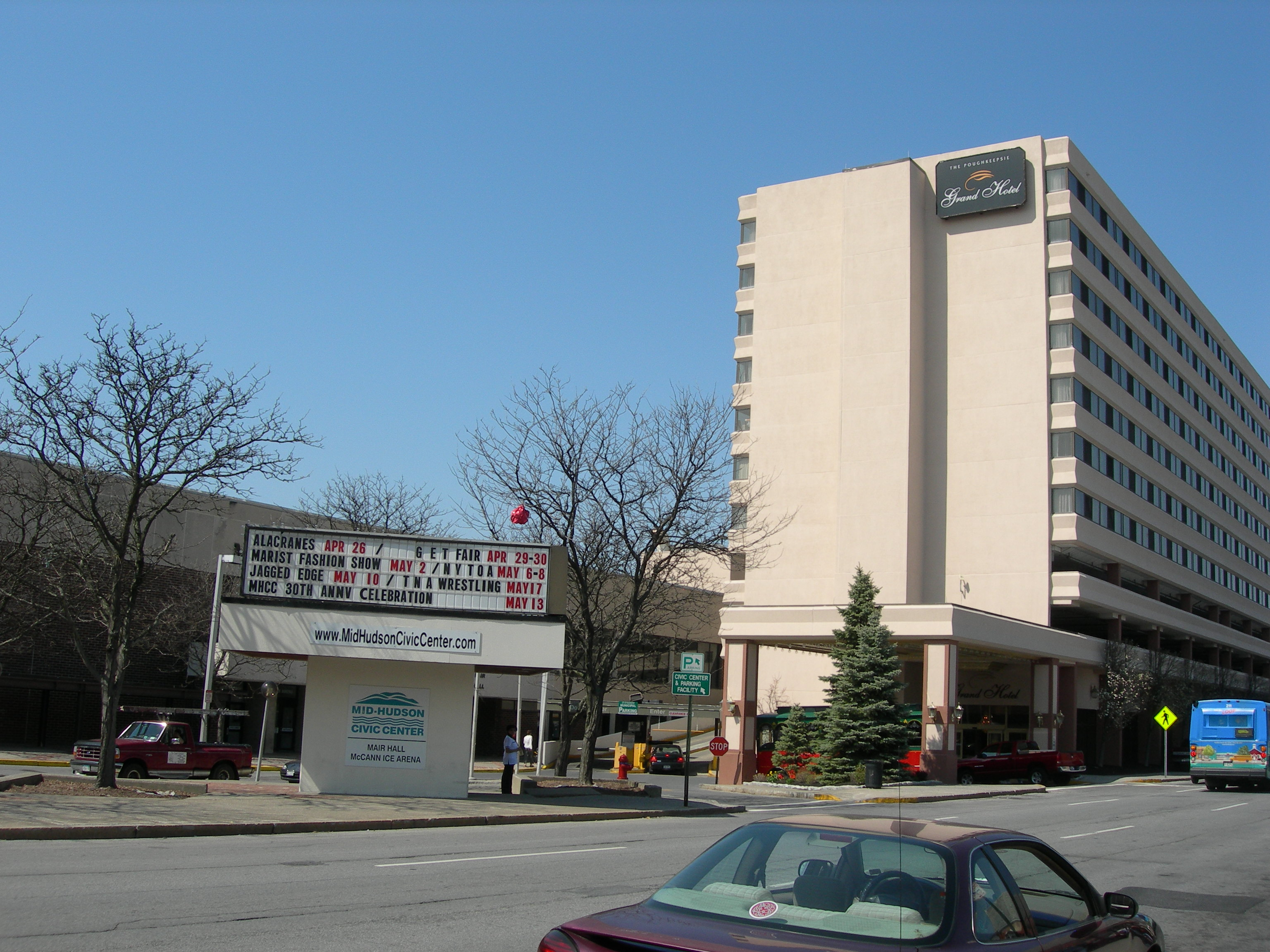 Mid Hudson Civic Center with hotel, Poughkeepsie, New York